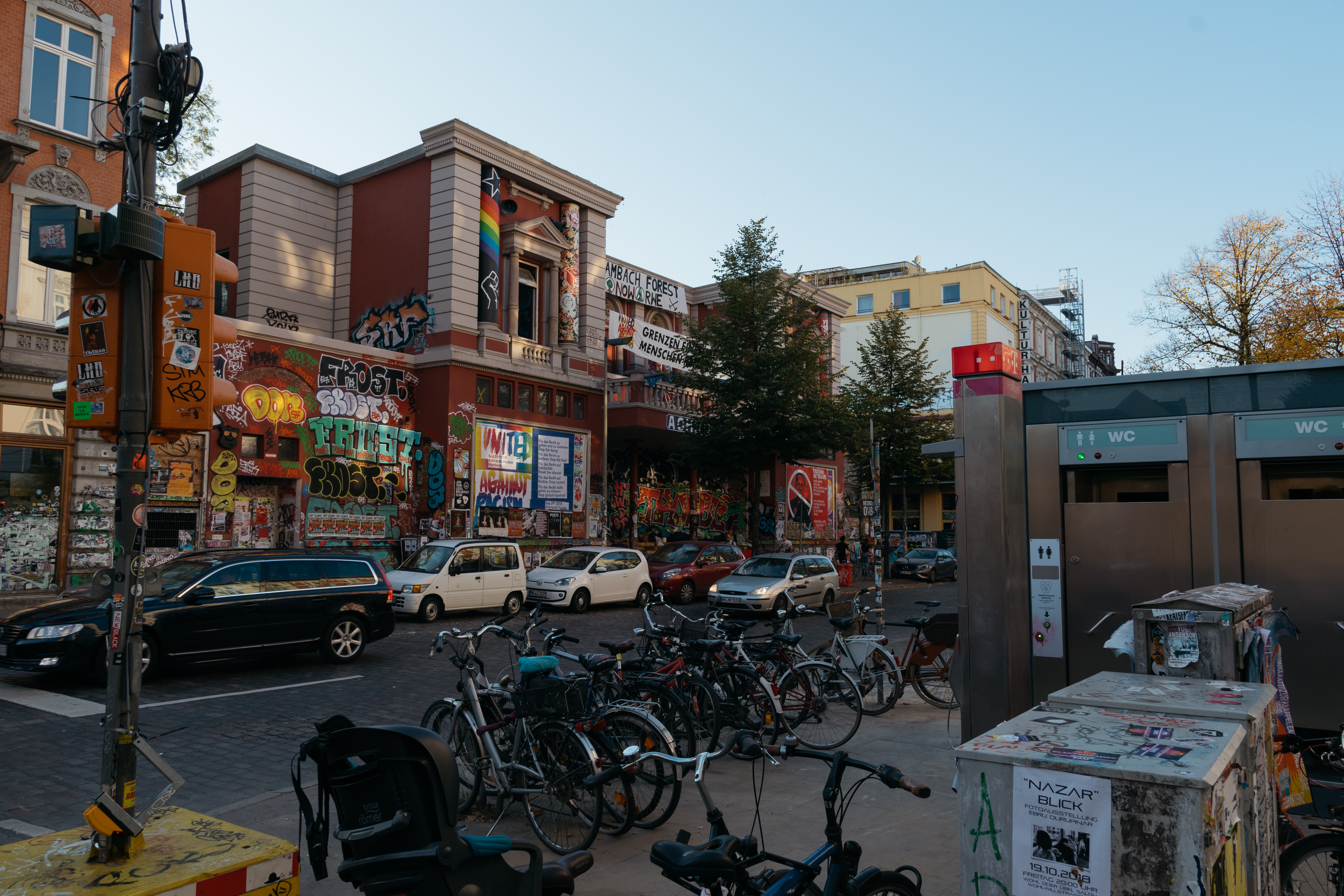 The Rote Flora in Hamburg-Sternschanze